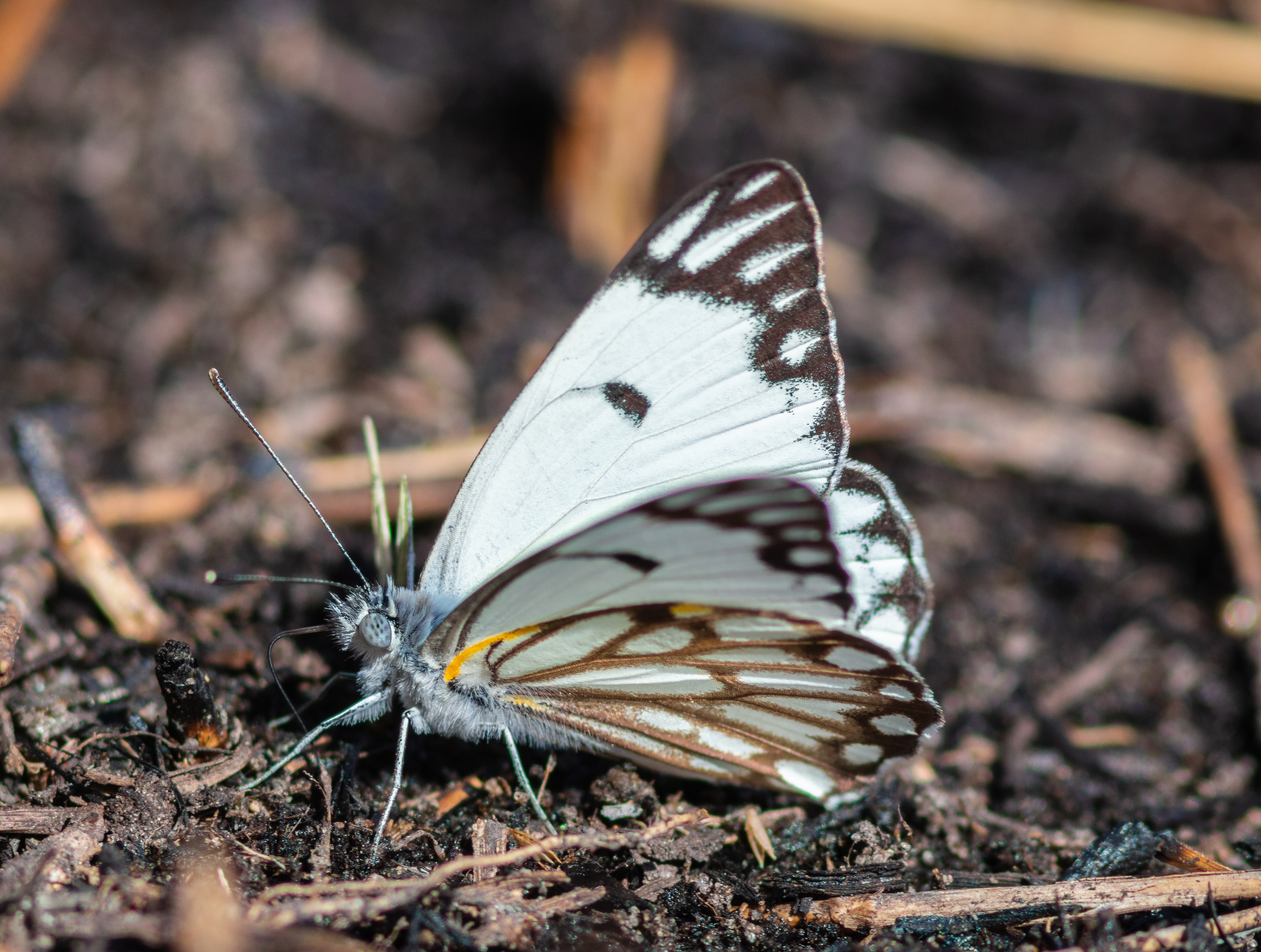 Belenois aurota, Okavango Delta, Botswana